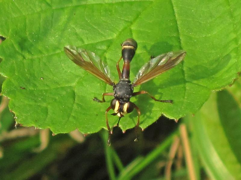 Physocephala rufipes (Conopidae sp.), Vrouwenpolder, the Netherlands